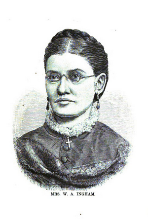 Mary Bigelow (Janes) Ingham, aka, Mrs. W. A. Ingham